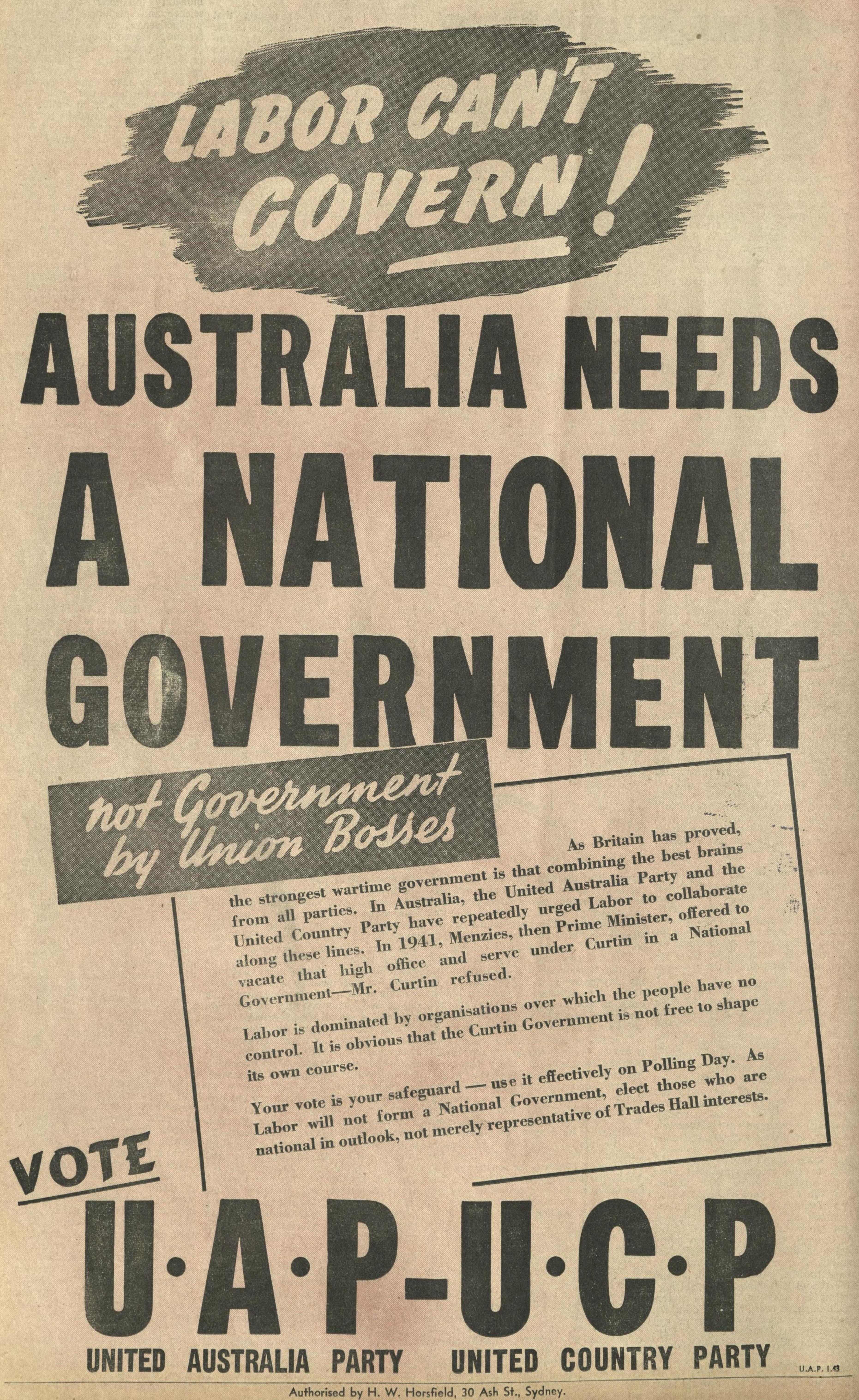 Australian election advertisement for the United Australia Party and United Country Party at the 1943 Australian federal election.